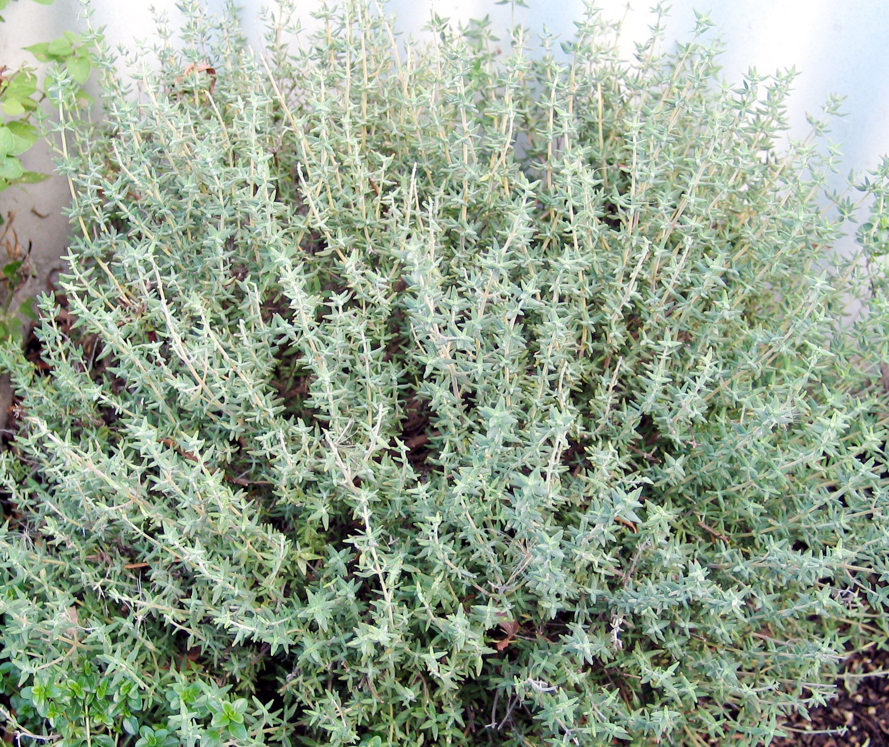 This is a wild thyme plant (in a garden).